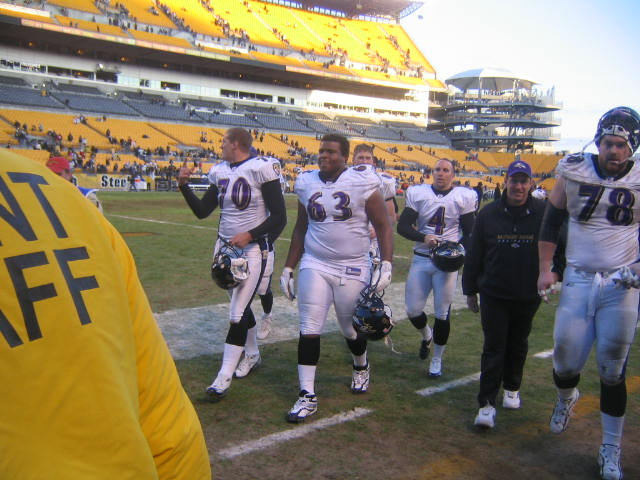 Baltimore Ravens players Sam Koch, Matt Katula, Adam Terry, and Ikechuku Ndukwe exiting the field after a game at Heinz Stadium against the Pittsburgh Steelers.